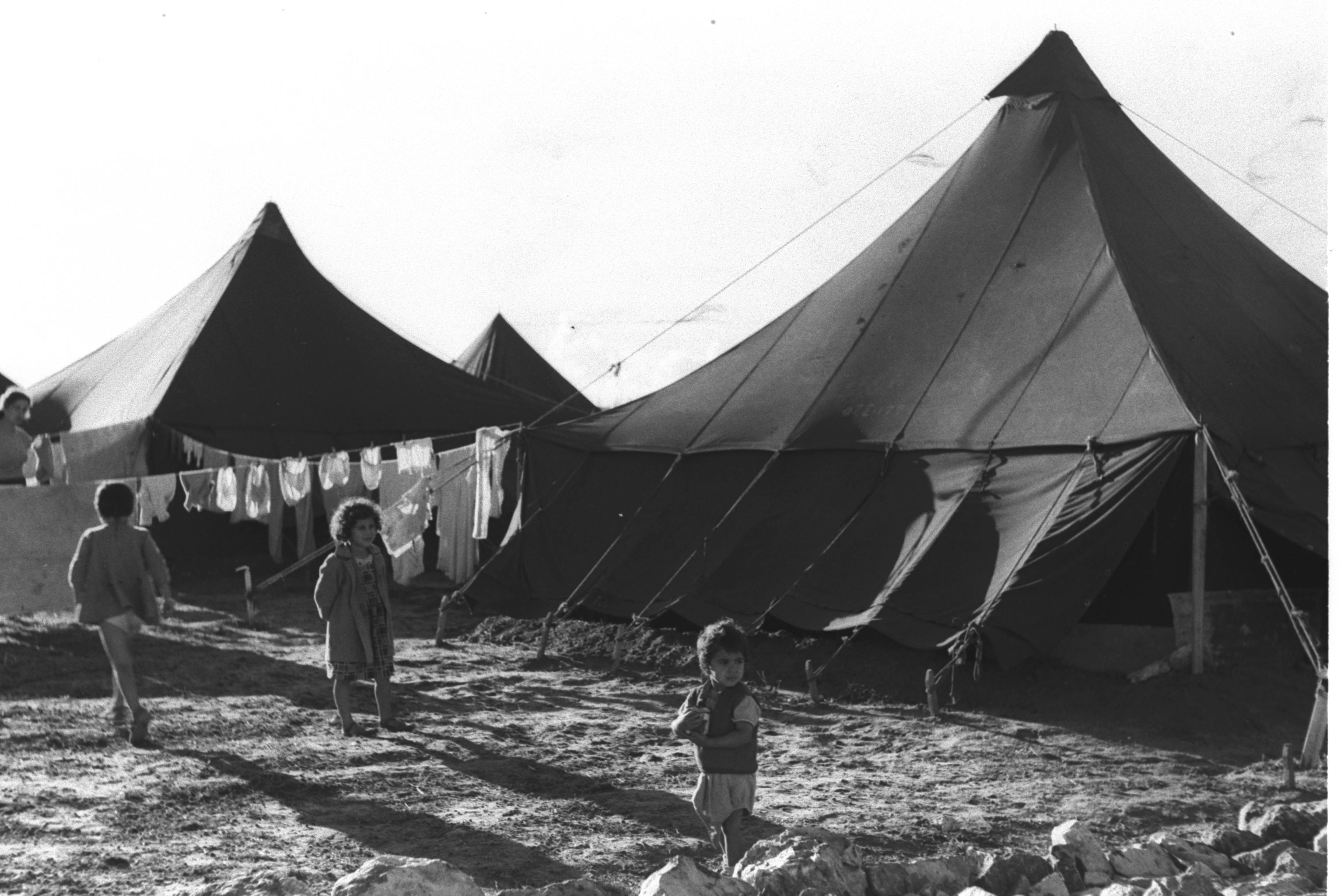 Original Description: PARDES HANNA MA'ABARA.